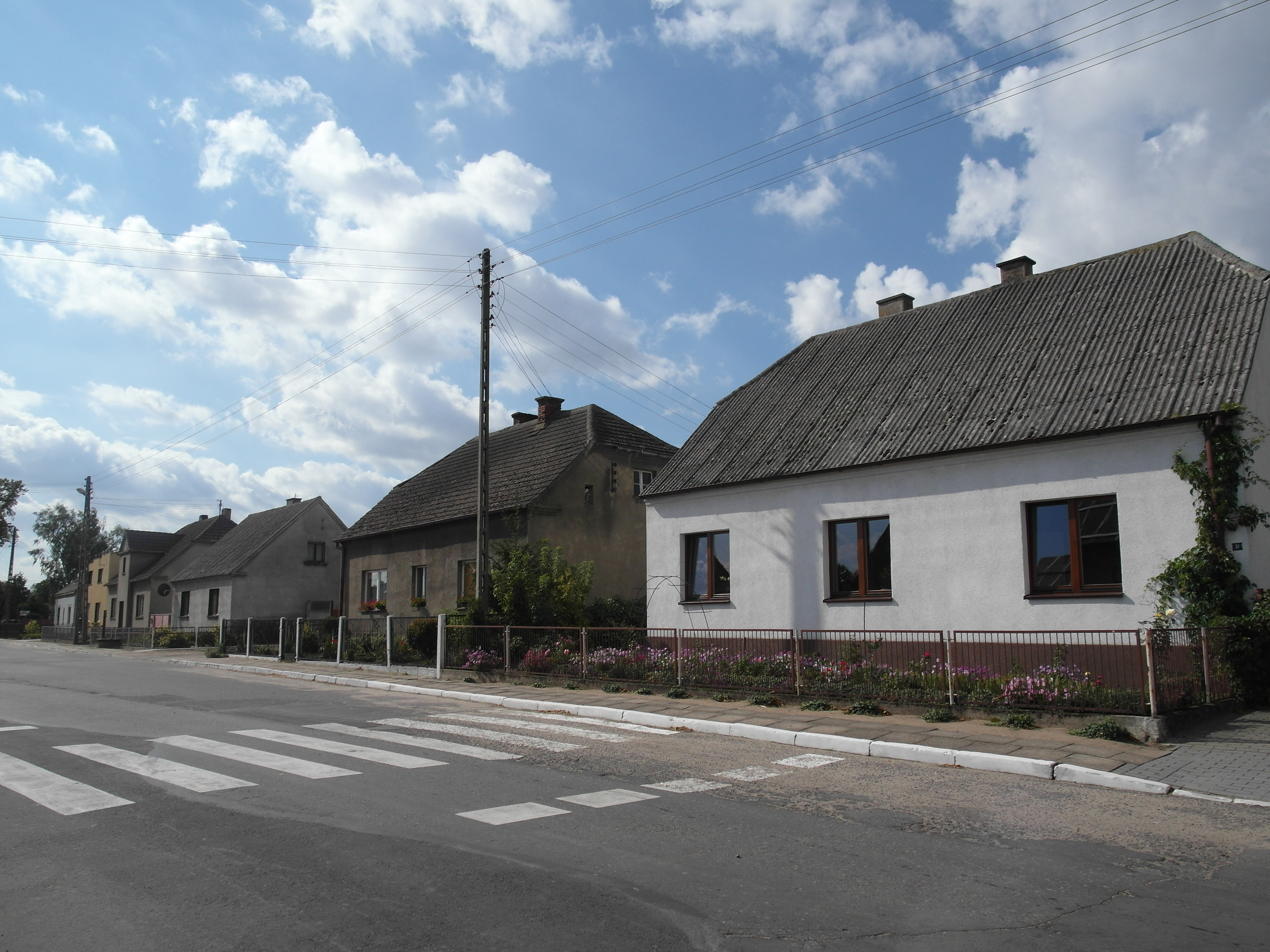 Houses in Murzynowo Kościelne